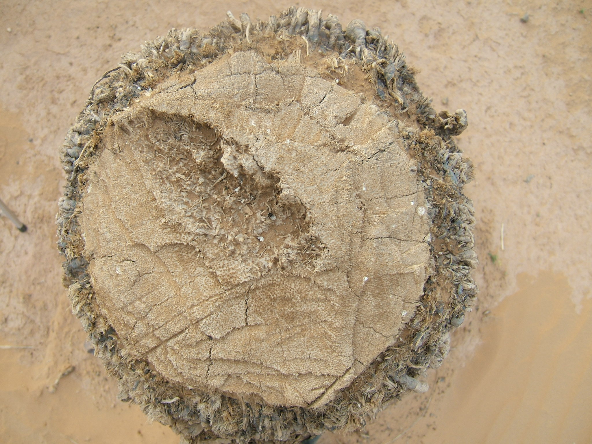 Phoenix dactylifera cut stump, showing lack of growth rings. Erg Chebbi, Merzouga, Morocco